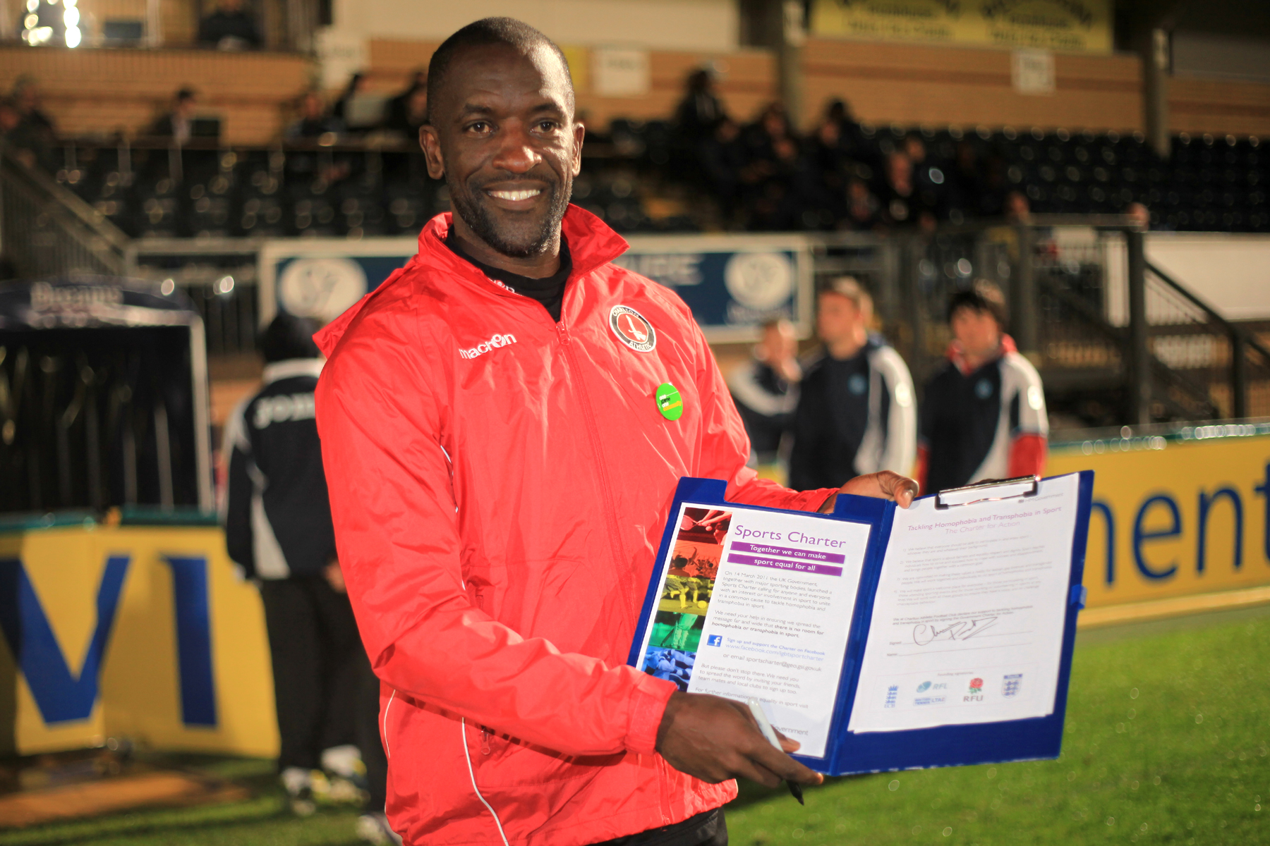 Chris Powell with the Government 'Charter for Action'.